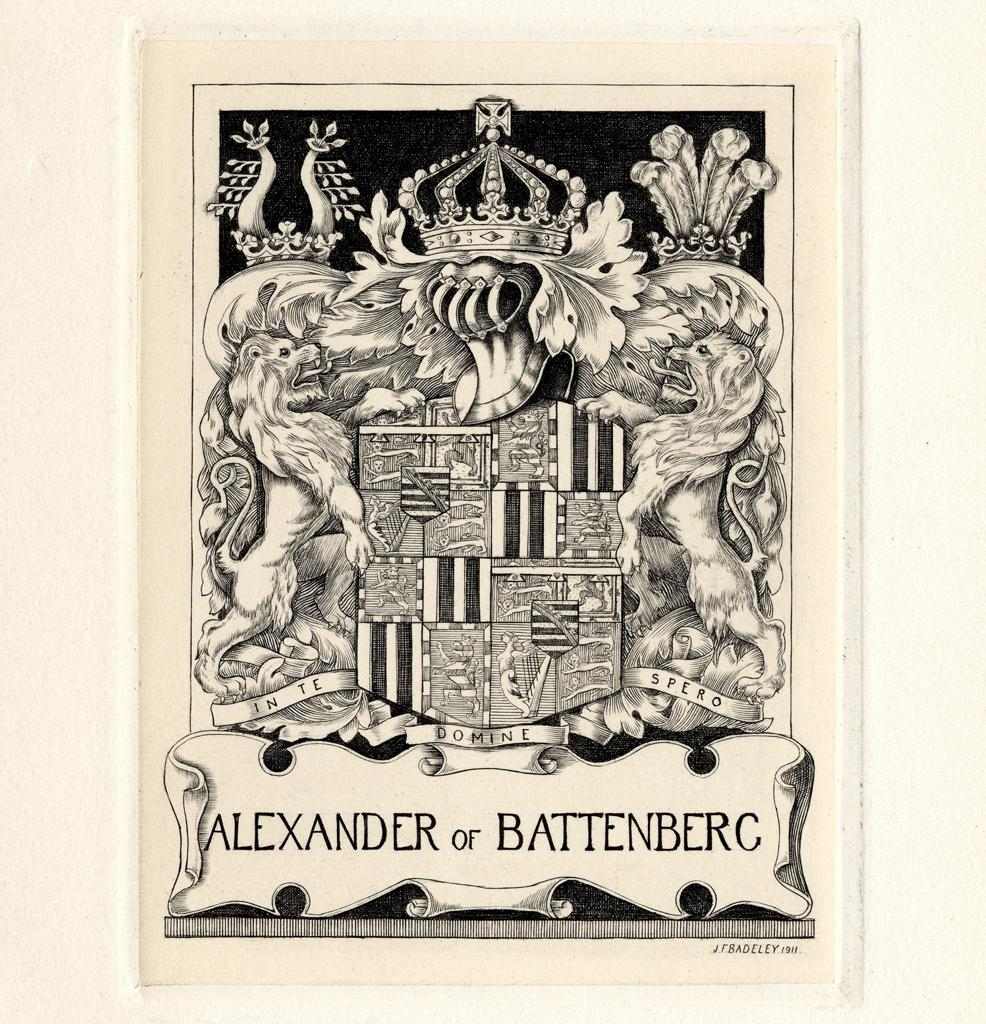 Armorial/Heraldic Bookplates. Subject: Coat of arms; Animals; Shields Armor. Subject - Family Name: Alexander.